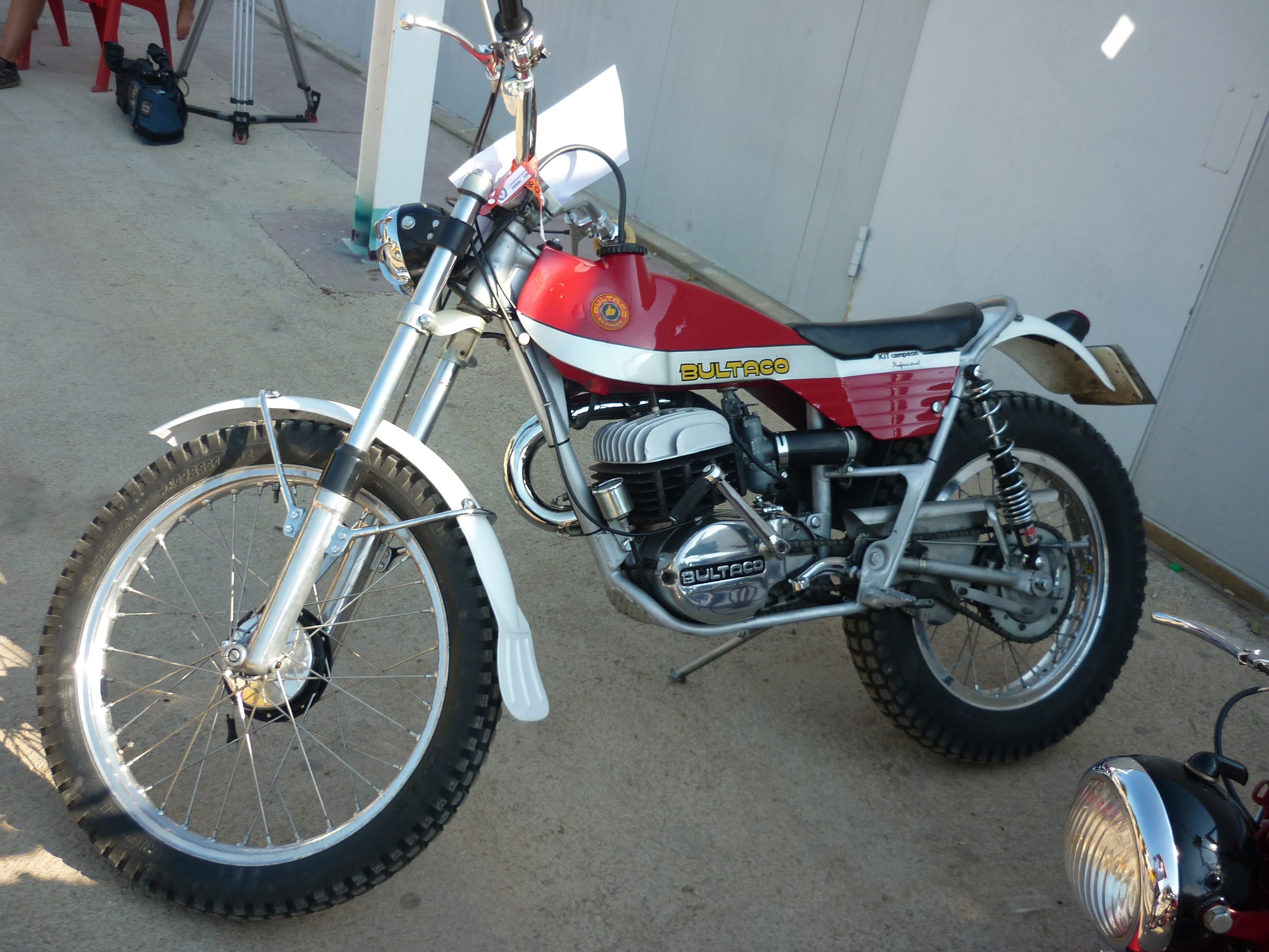 Bultaco Sherpa T 350cc (1972) with Campeon kit. Motorcycle meeting held on September 10, 2011 in Can Carrancà (near the Derbi factory in Martorelles, Catalonia).